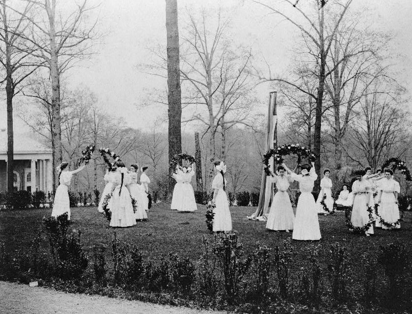 May Day (May 1) festivities at National Park Seminary (Forest Glen, Maryland) in 1907. Note: Image cropt to remove border.